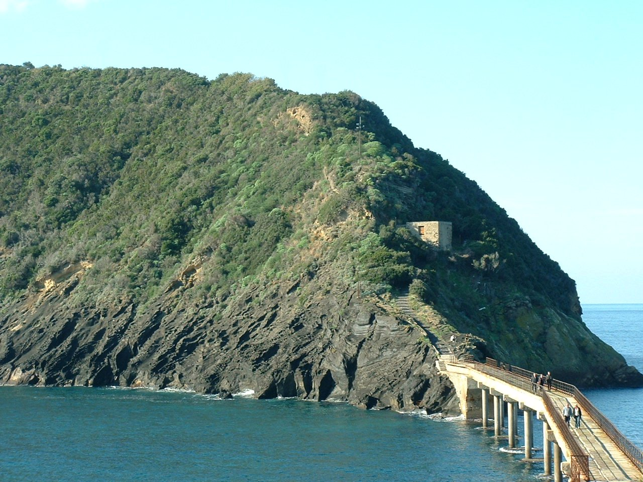 Views of Vivara from the bridge, Procida - photo by Romina and utente:Retaggio